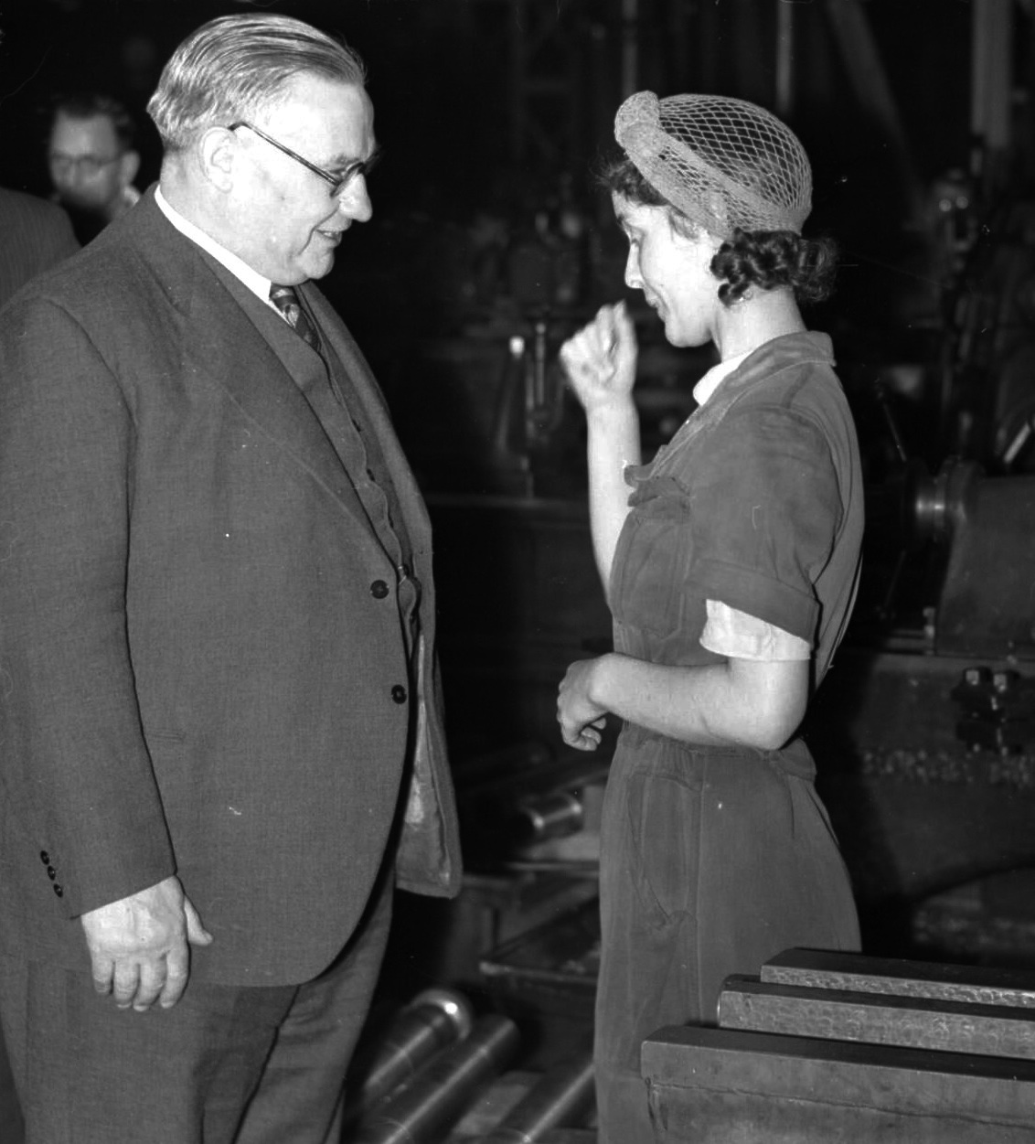 Photograph of Ernest Bevin and Ruby Loftus, the subject of a painting by Dame Laura Knight